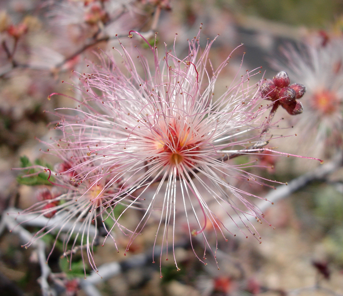 Fairy duster in flower in Saguaro National Park in Arizona, United States. The fairy duster is a low shrub native to deserts in the southwestern United States and Mexico.